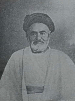 Ashraf-Al-Din Hosseini Gilani, early 1930s